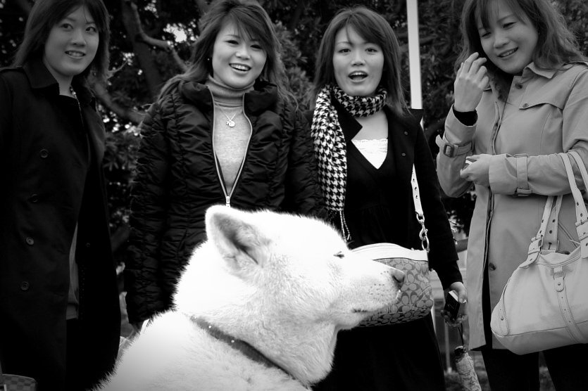 A dog in the center of attraction.